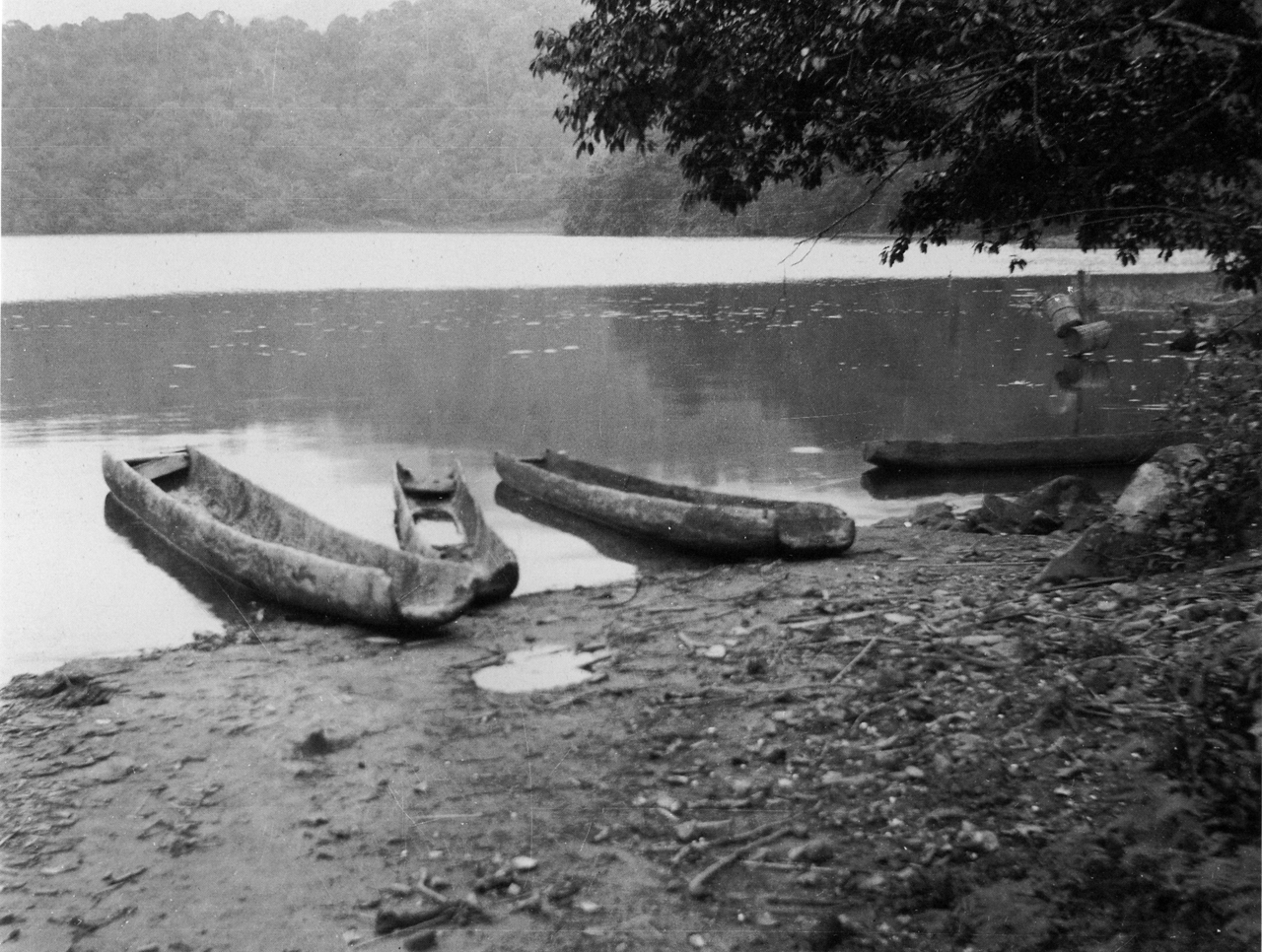 Sun Moon Lake (Lake Candidius), ca. 1900.